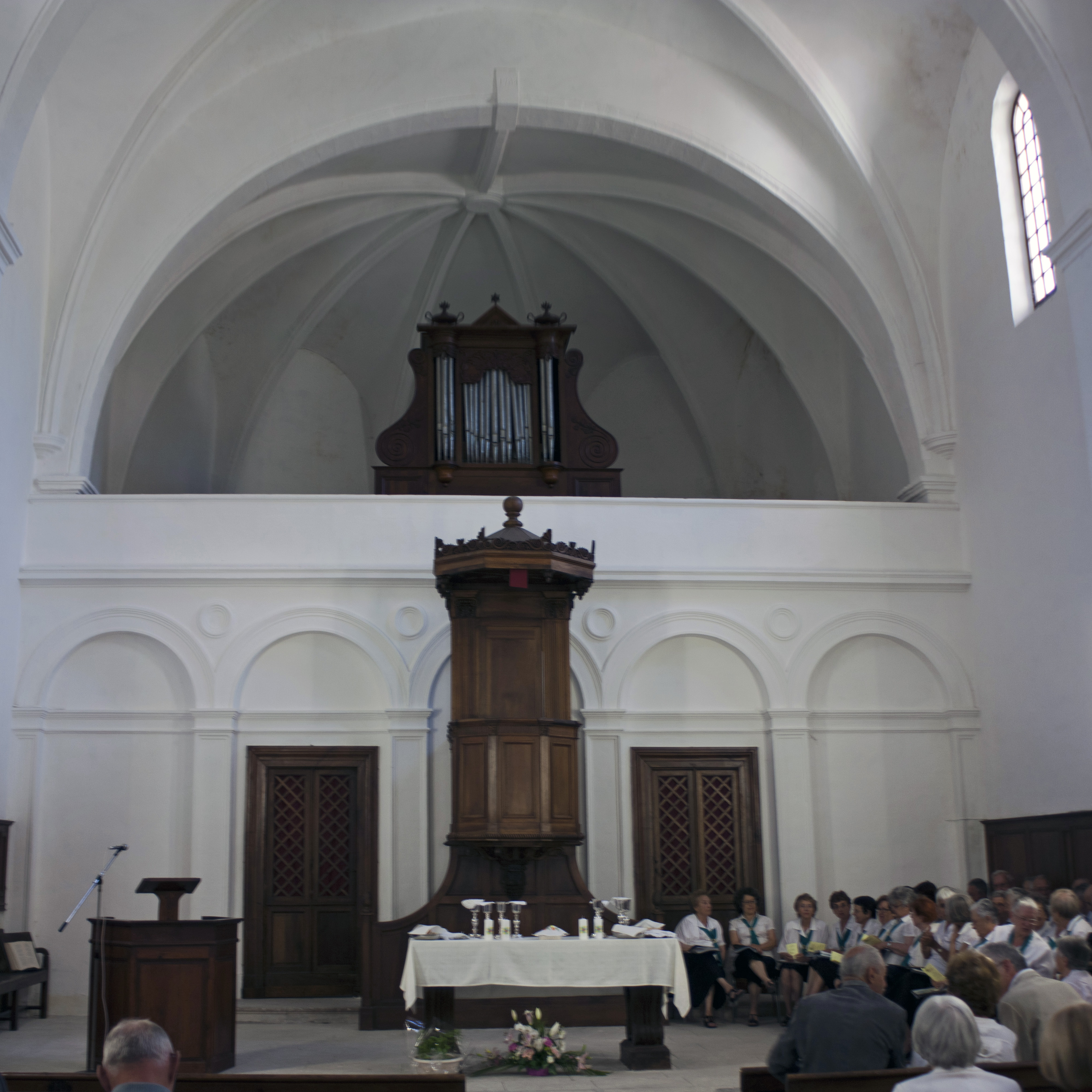 Inside the temple of Sommières on the occasion of the constituent assembly of the EPUF Sommiérois-Vaunage. EPUF : Eglise Réformée Unie de France